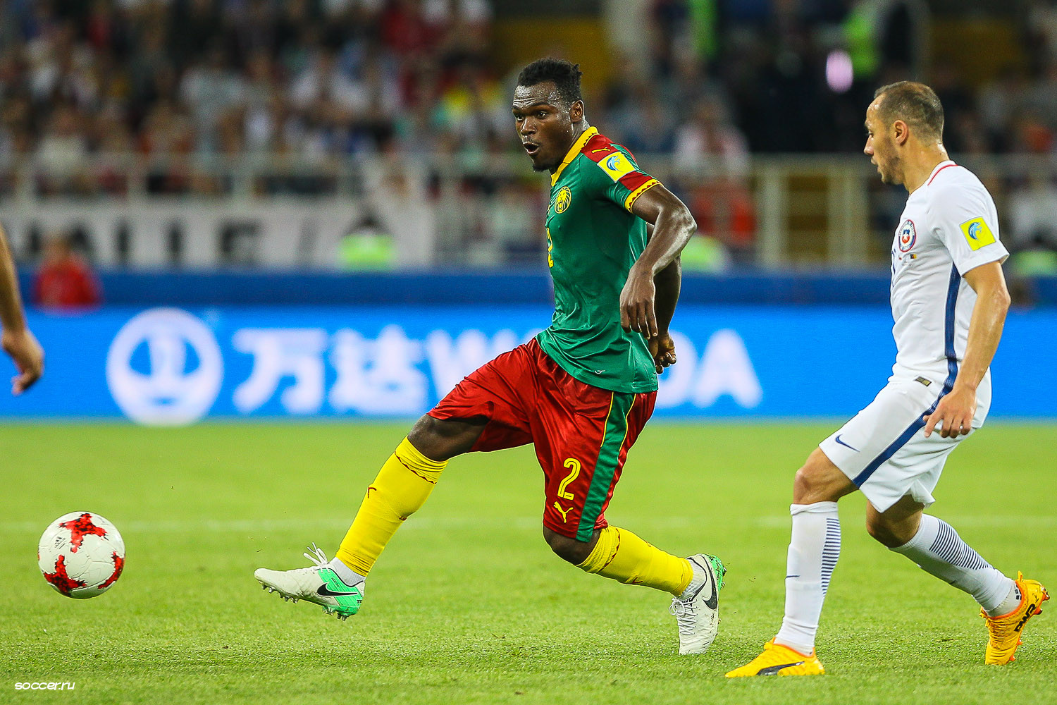 Cameroon vs Chile (0-2). FIFA Confederations Cup 2017